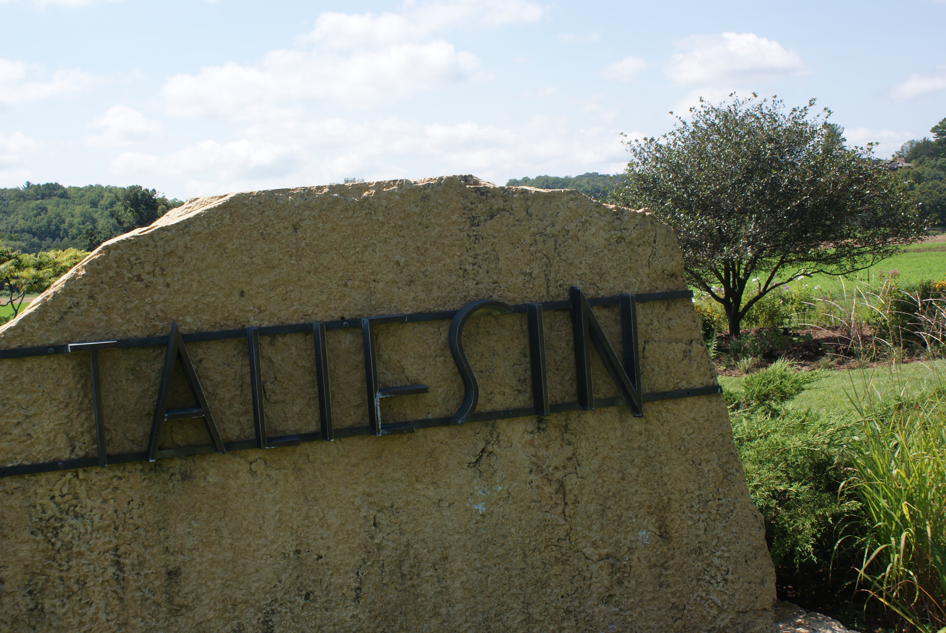 Sign at Taliesin entrance